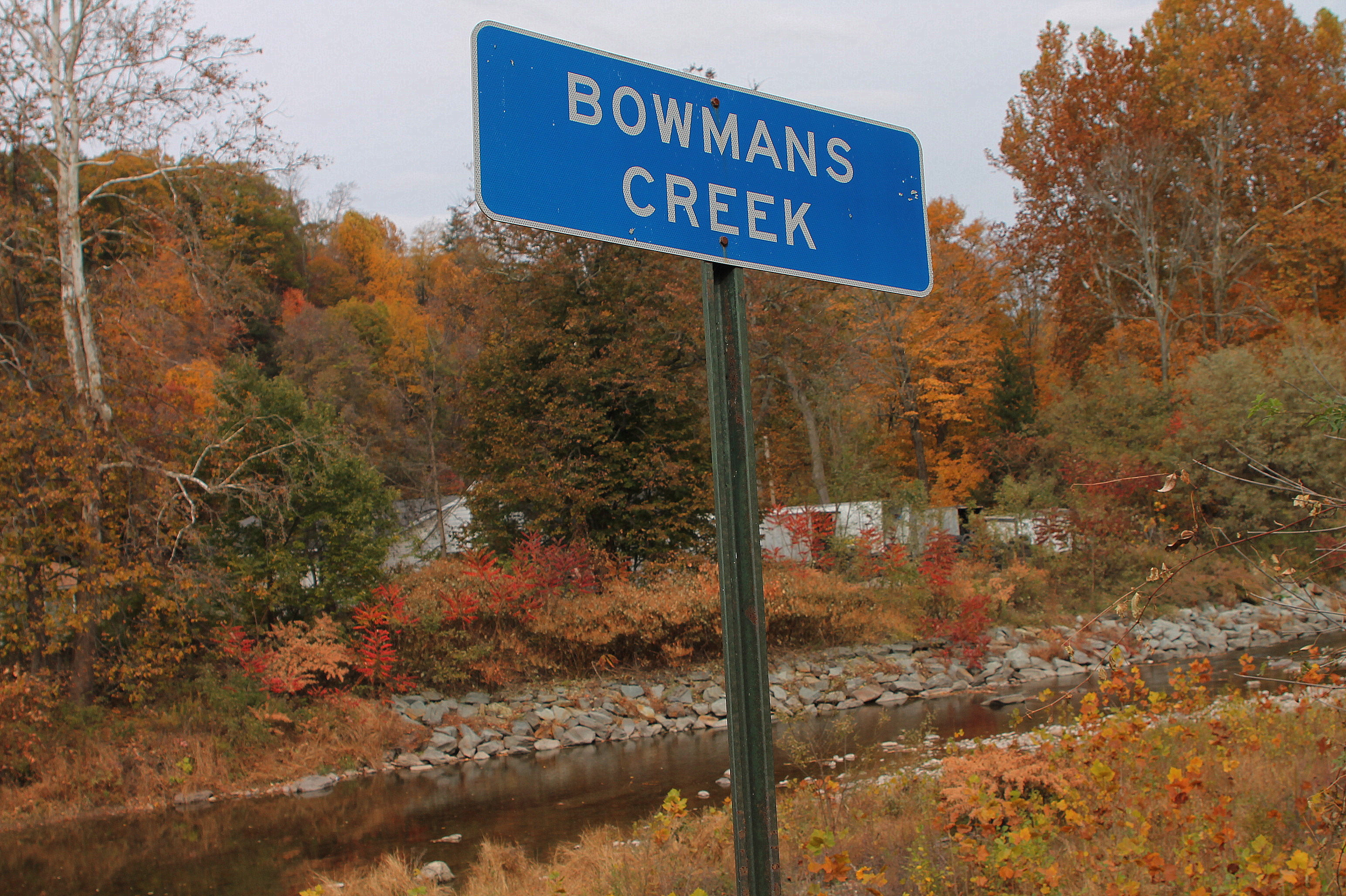 Sign for Bowman Creek in its lower reaches